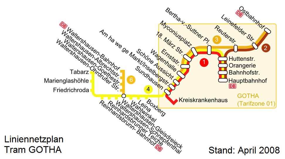 Gotha Tramnetwork